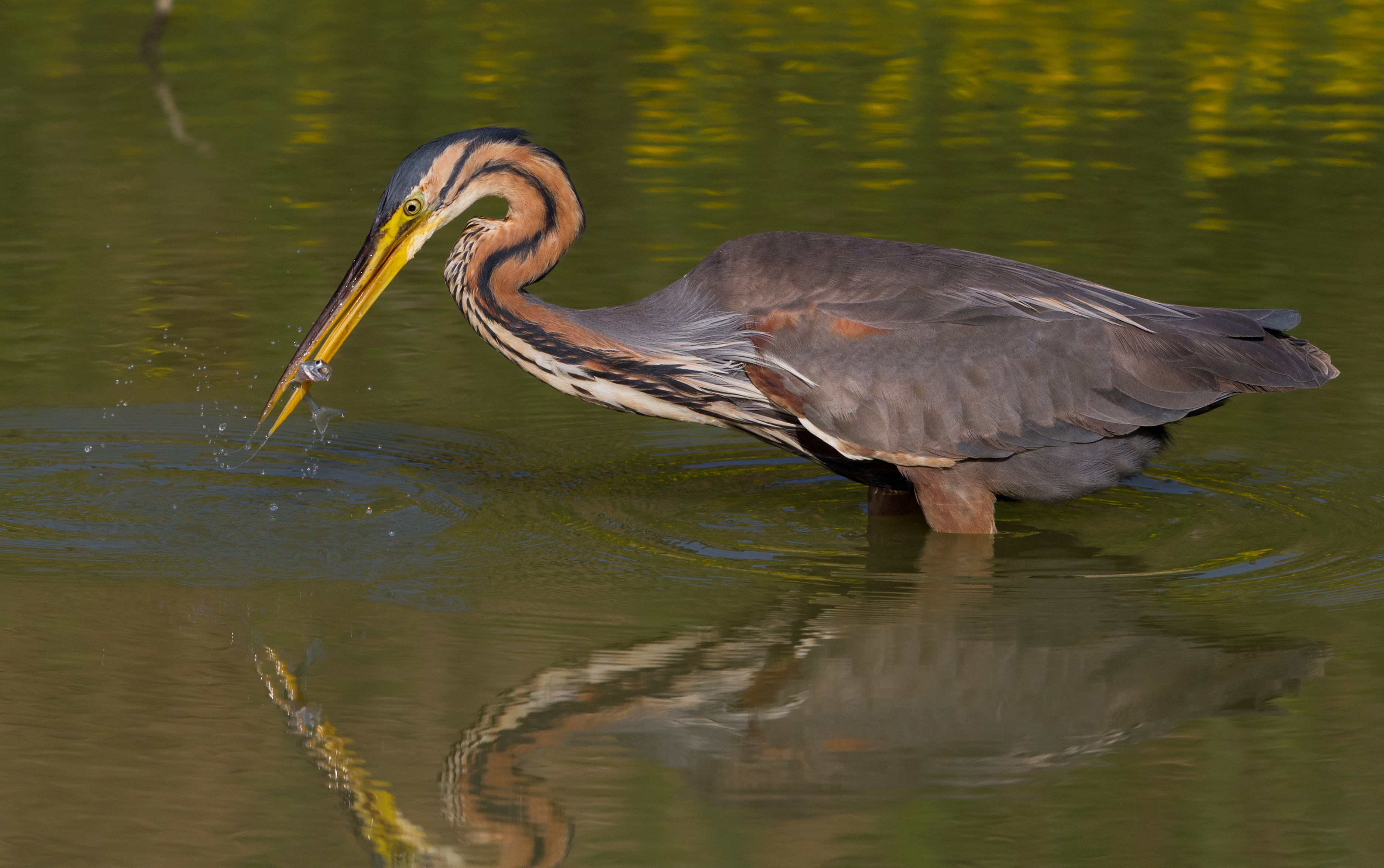 Purple heron. Adult